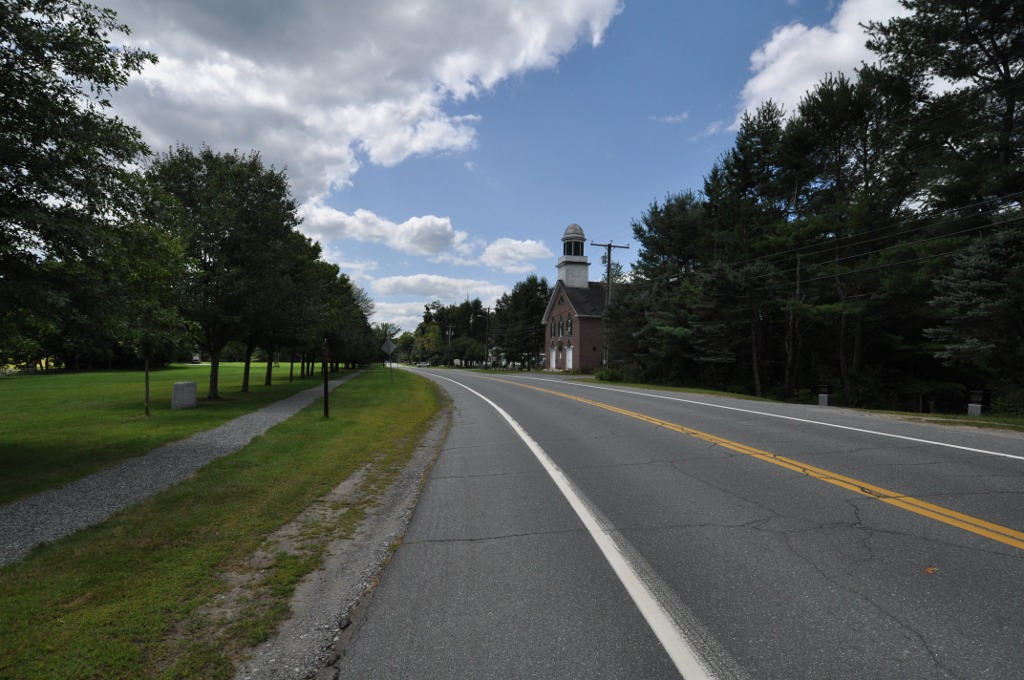 The northern end of the Orford Street Historic District, Orford, NH